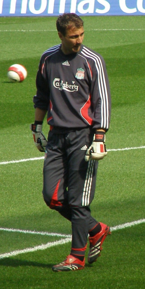 Jerzy Dudek before the game Manchester City vs. Liverpool (14 April 2007)